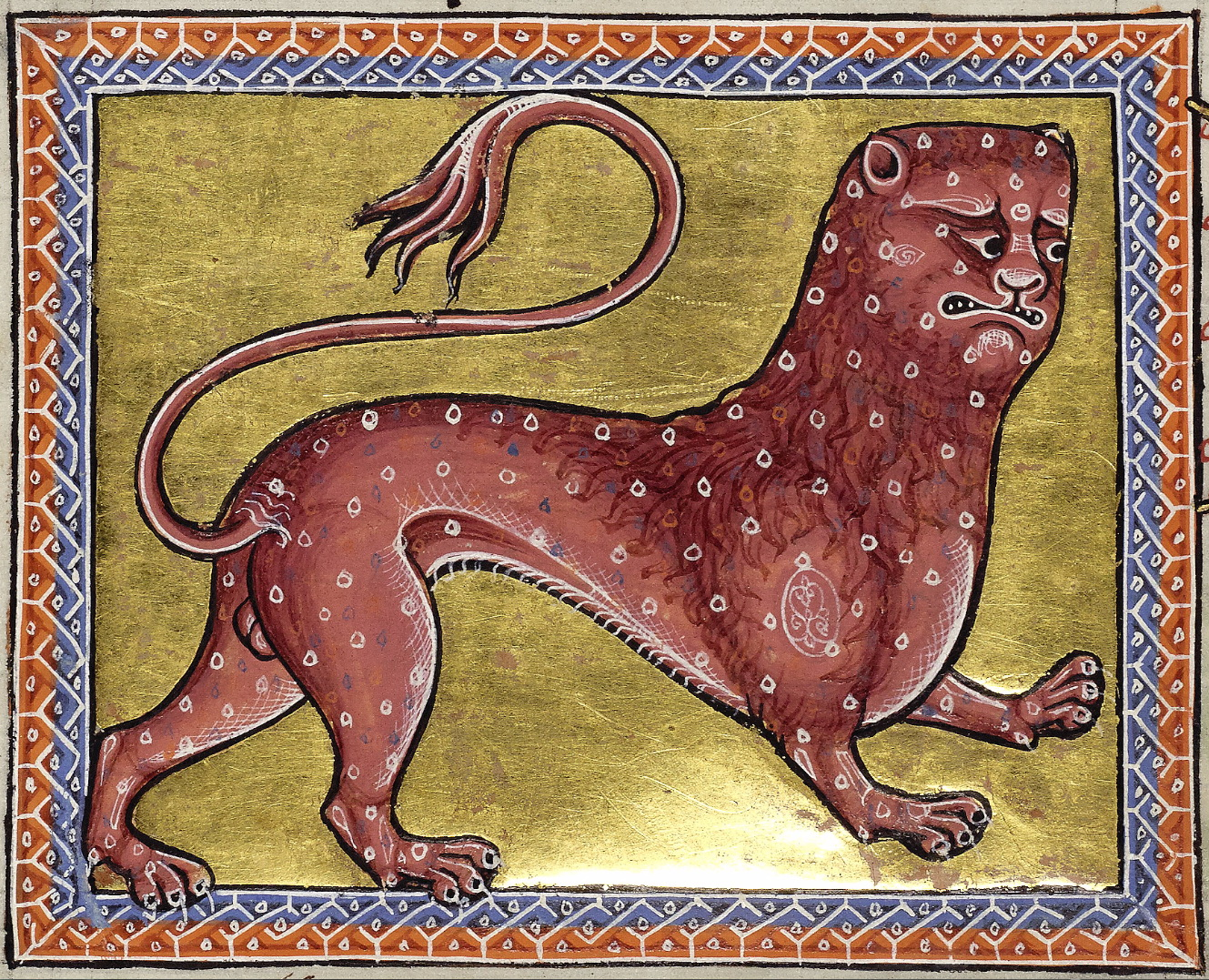 Folio 8 verso from the Aberdeen Bestiary. detail